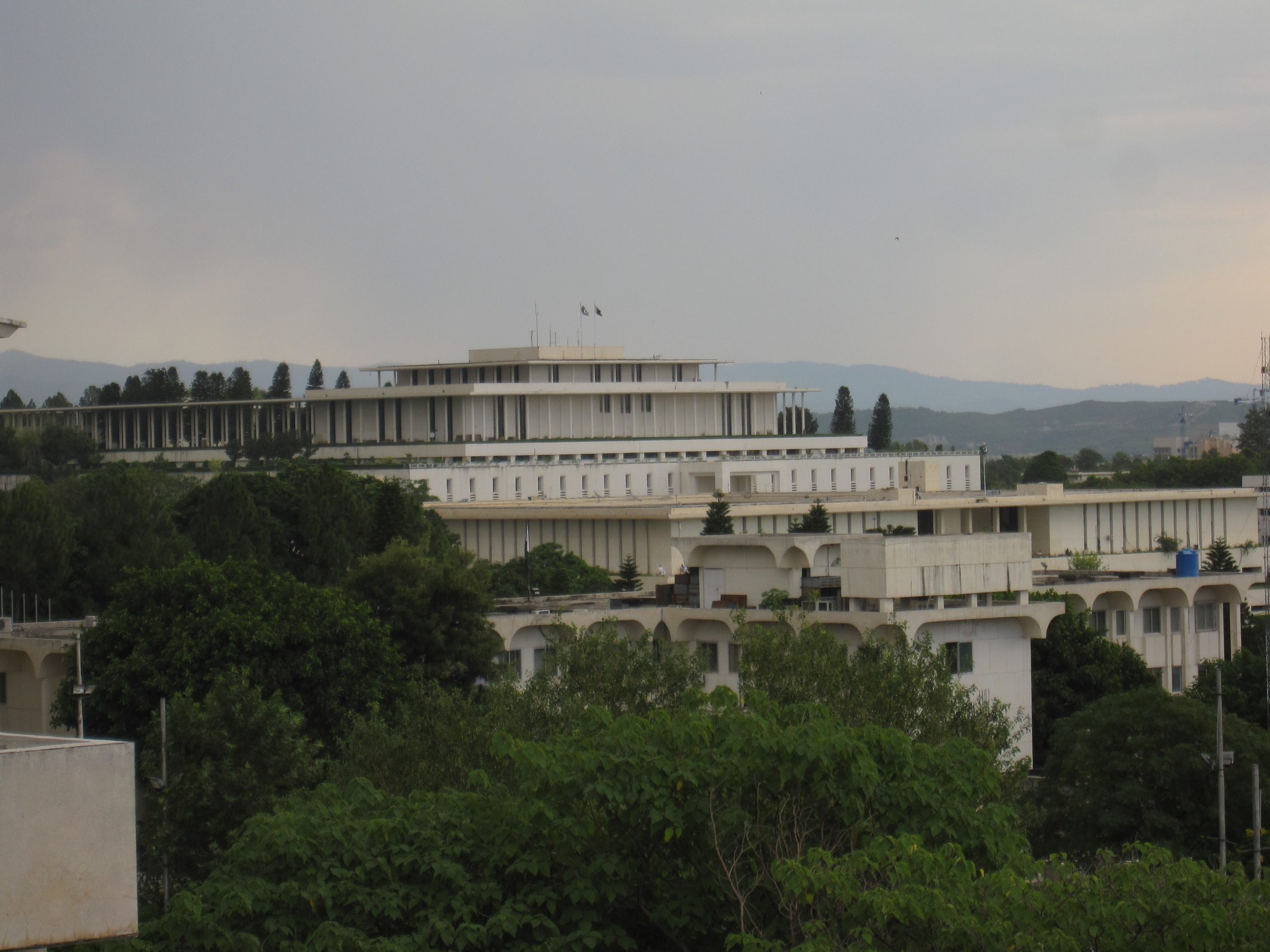 Aiwan-e-Sadr This is a photo of a monument in Pakistan identified as the ICT-10